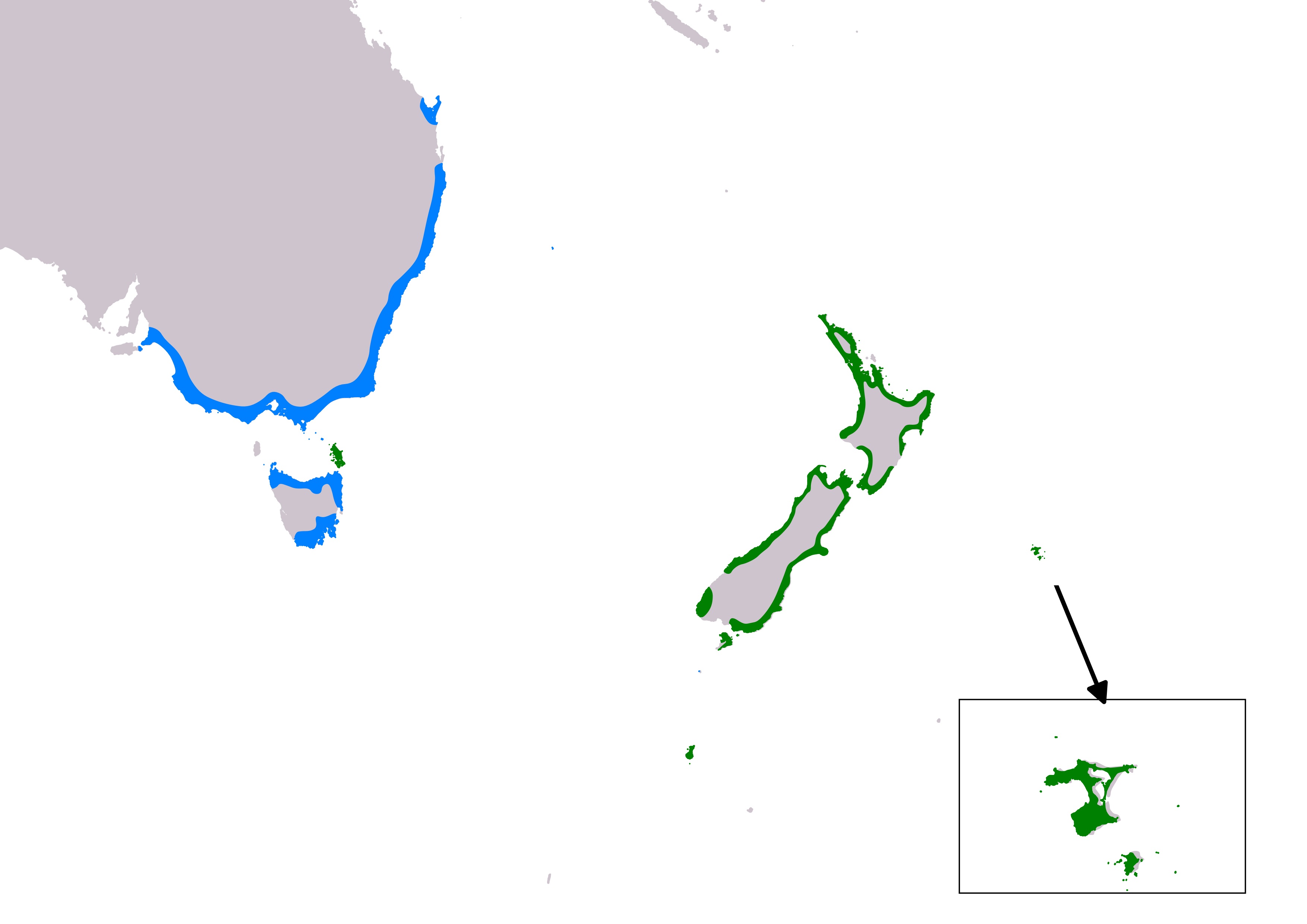 Map of white-fronted tern (Sterna striata) according to IUCN version 2018.2 , Legend: Extant, resident (#008000),Extant, non-breeding (#007FFF)